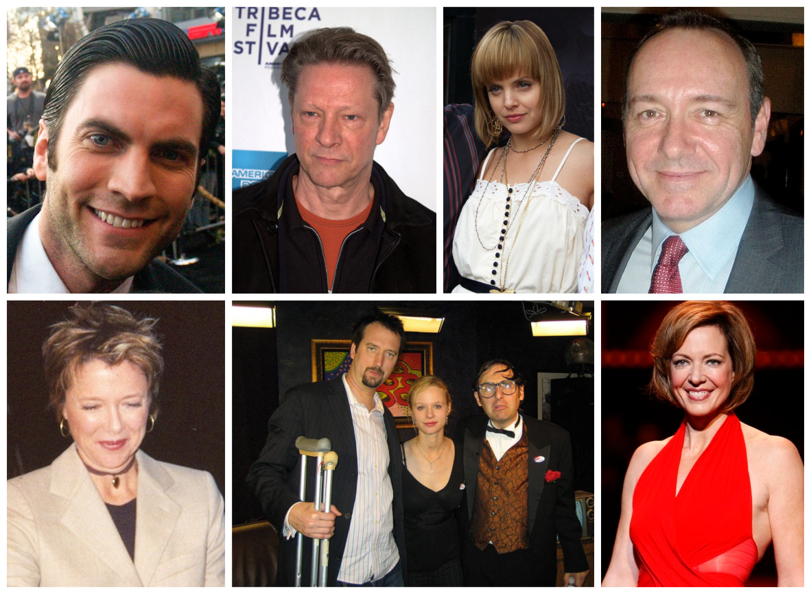 Principal cast of American Beauty